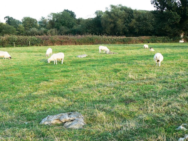 Stone circle, Day House Lane, Swindon, Wiltshire Ancient stone circle comprising 5 stones of which 3 are visible here (it wasn't possible to get all 5 in one shot without disturbing the sheep). No-one knows a great deal about it but the circle is probably as old as Avebury if not quite as impressive.